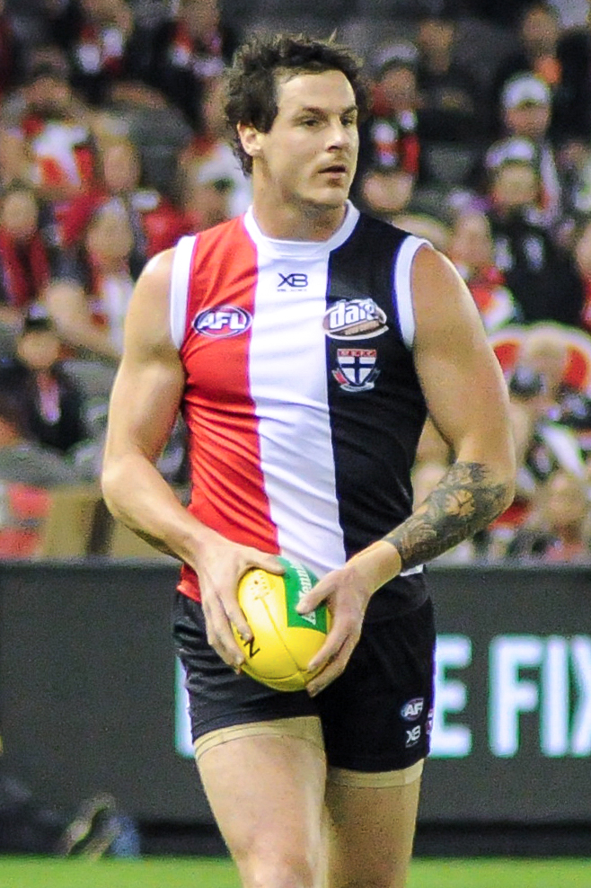 Jake Carlisle during the AFL round five match between St Kilda and Greater Western Sydney on 21 April 2018 at Etihad Stadium in Melbourne, Victoria.